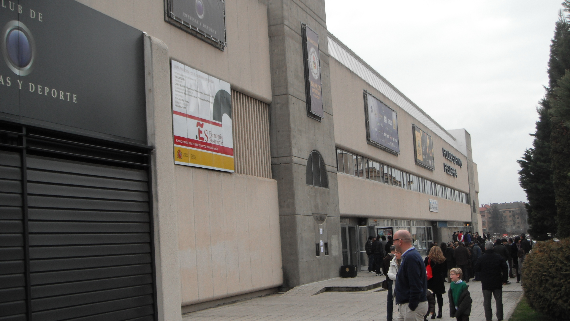 Pisuerga Arena in Valladolid (Spain)